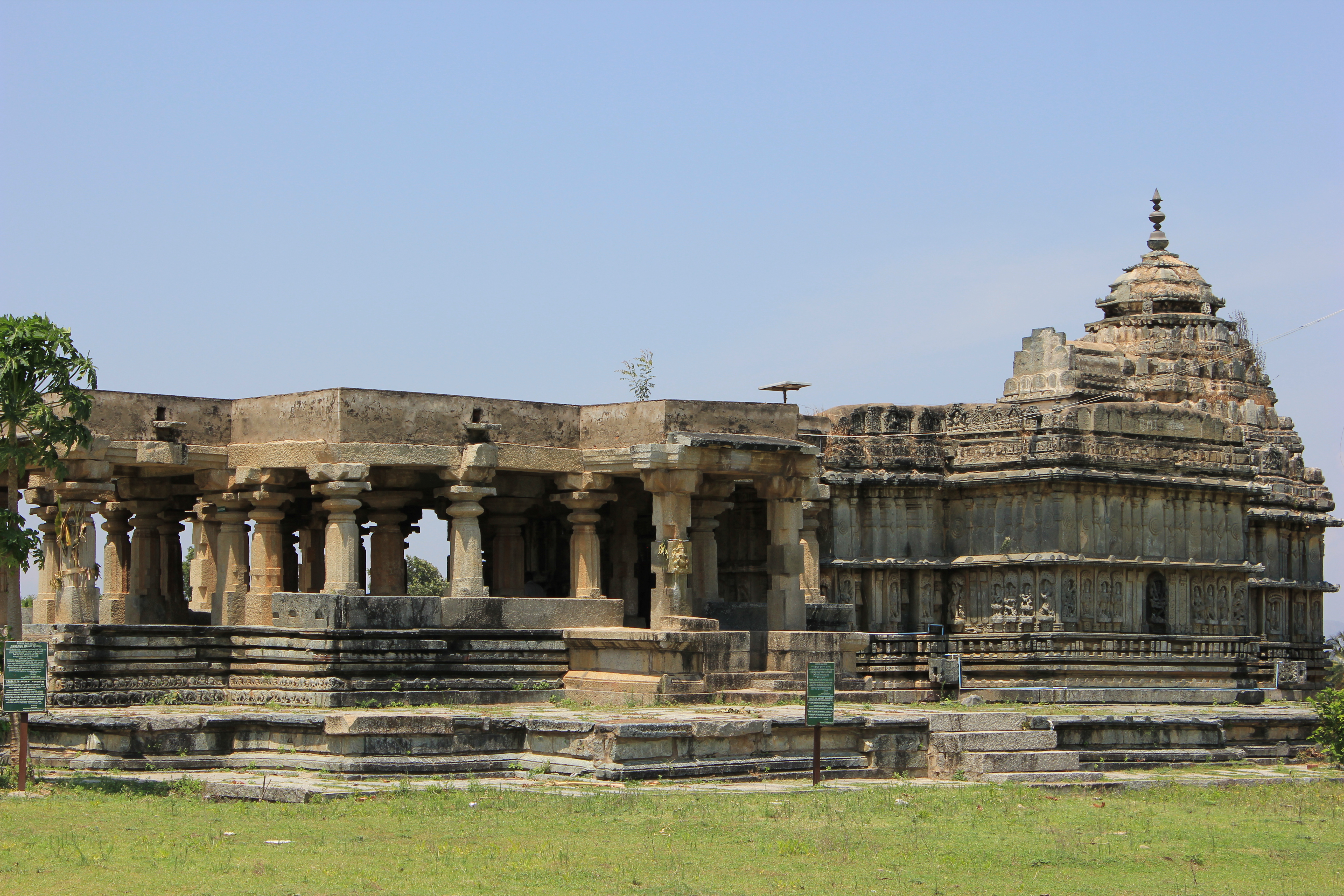 This photograph was taken by me (Dinesh Kannambadi) in the Yoga Narasimha temple at Baggavalli, Chikkamagaluru district, Karnataka state, India. The temple was built during the rule of the Hoysala Empire